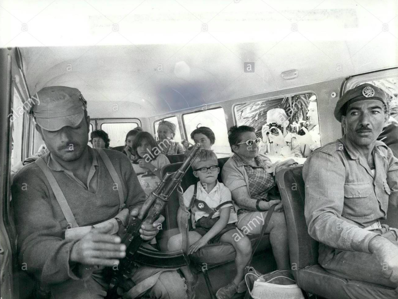 Jordanian army escorts freed family in Black September 1970